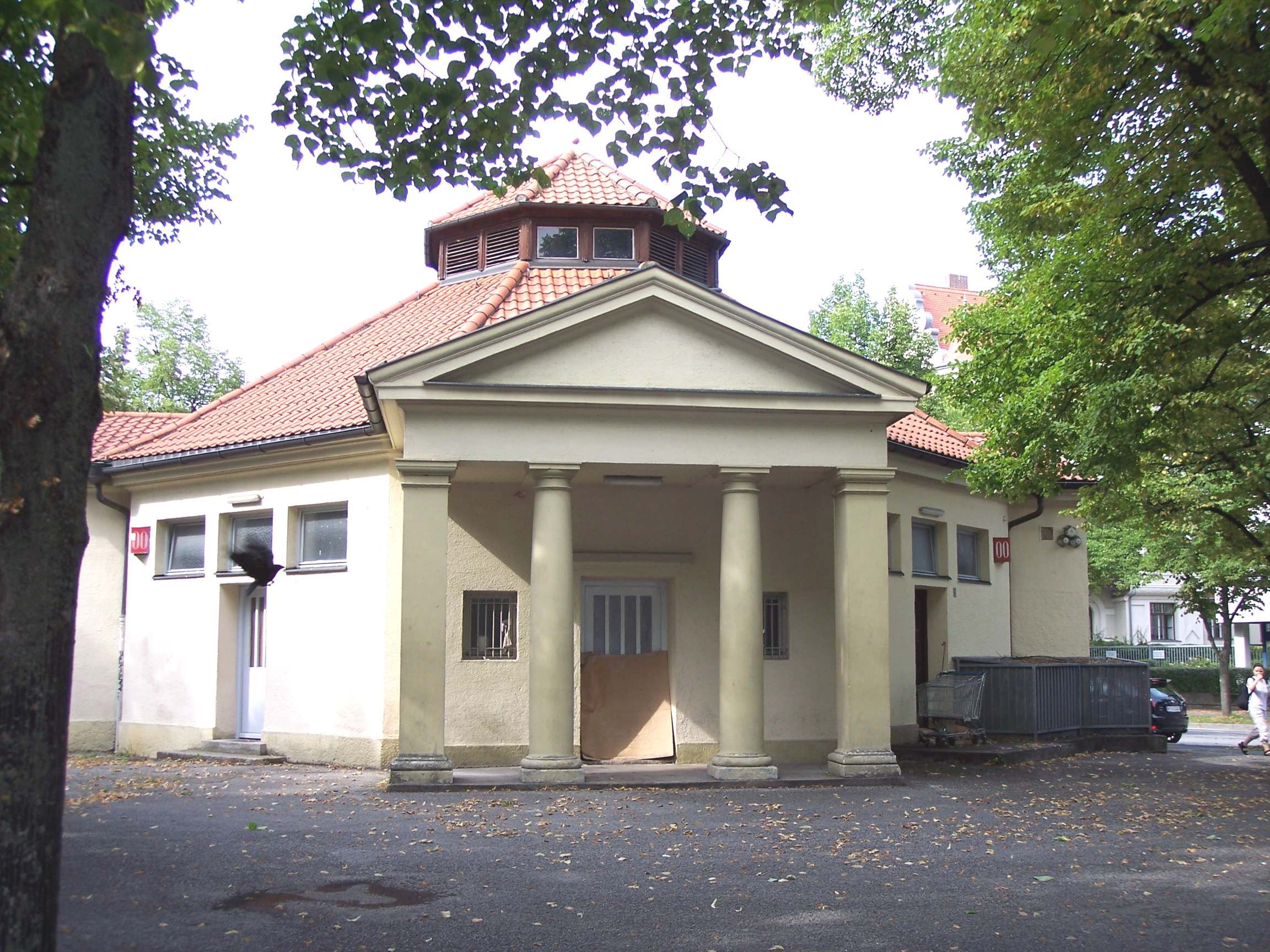 former Brausebad (public shower bath) in Munich, Germany near Theresienwiese